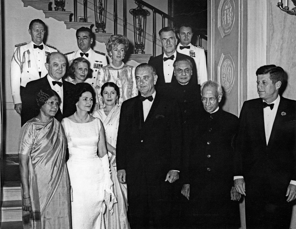 President John F. Kennedy and others attend a state dinner in honor of President of India, Dr. Sarvepalli Radhakrishnan. Front row (L-R): Minister of External Affairs of India, Lakshmi N. Menon; Lady Bird Johnson; Vice President Lyndon B. Johnson; President Radhakrishnan; President Kennedy. Middle rows (L-R): Secretary of State, Dean Rusk; Kitty Galbraith (wife of US Ambassador to India, John Kenneth Galbraith); Shobha “Fori” Nehru (wife of Indian Ambassador to the United States, B. K. Nehru); Robin Chandler Duke (wife of US Chief of Protocol, Angier Biddle Duke); Ambassador Galbraith; Ambassador Nehru. Top row (L-R): Military Aide to President Kennedy, General Chester V. Clifton; Air Force Aide to President Kennedy, Brigadier General Godfrey T. McHugh; Naval Aide to President Kennedy, Captain Tazewell Shepard. Grand Staircase, Entrance Hall, White House, Washington, D.C.